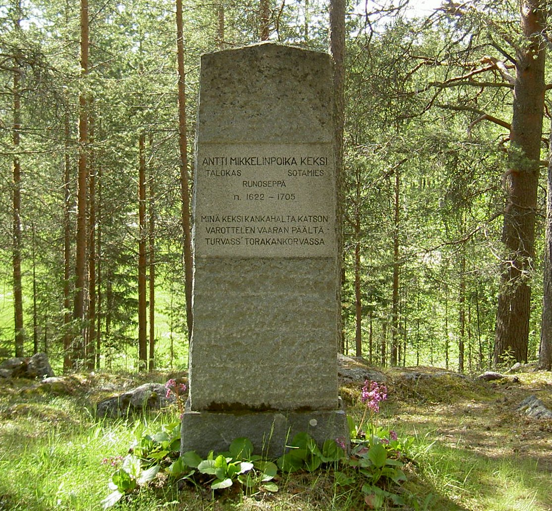 Monument to commemorate Antti Keksi (1622-1705), the first folk poet in the Finnish language and of Finnish origin to be known by name, in Övertorneå, Sweden.